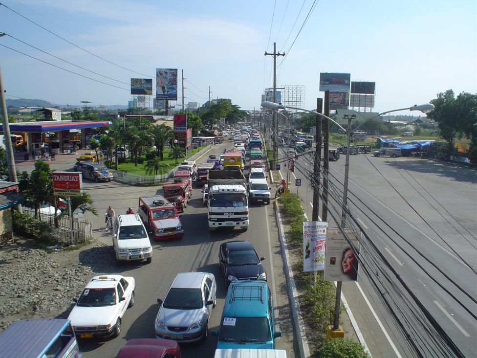 Image from a downtown street, taken from a bridge.